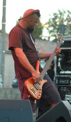 John Norwood Fisher of Fishbone